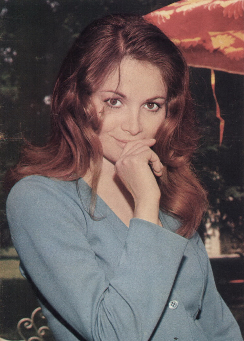 Actress Martine Brochard in the set of the Italian TV-series I giovedì della signora Giulia , Rome, 1970